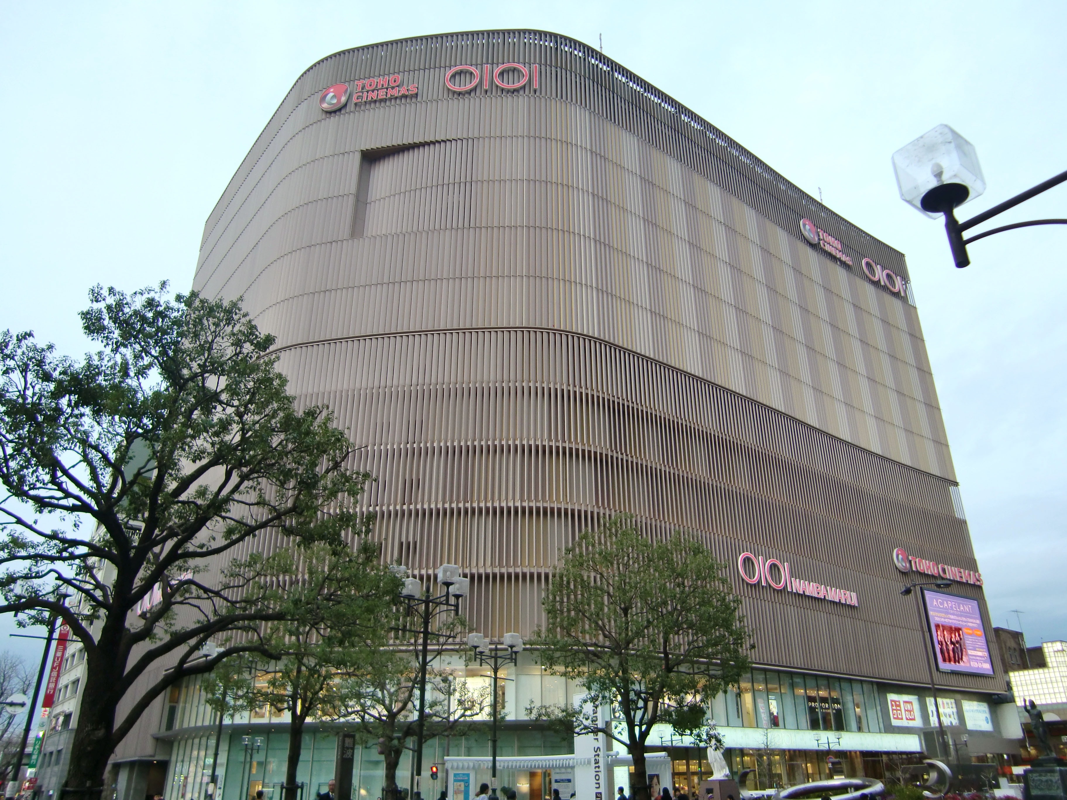 Namba Marui,3-8-9 Namba Chuo-ku Osaka-City Osaka Japan.